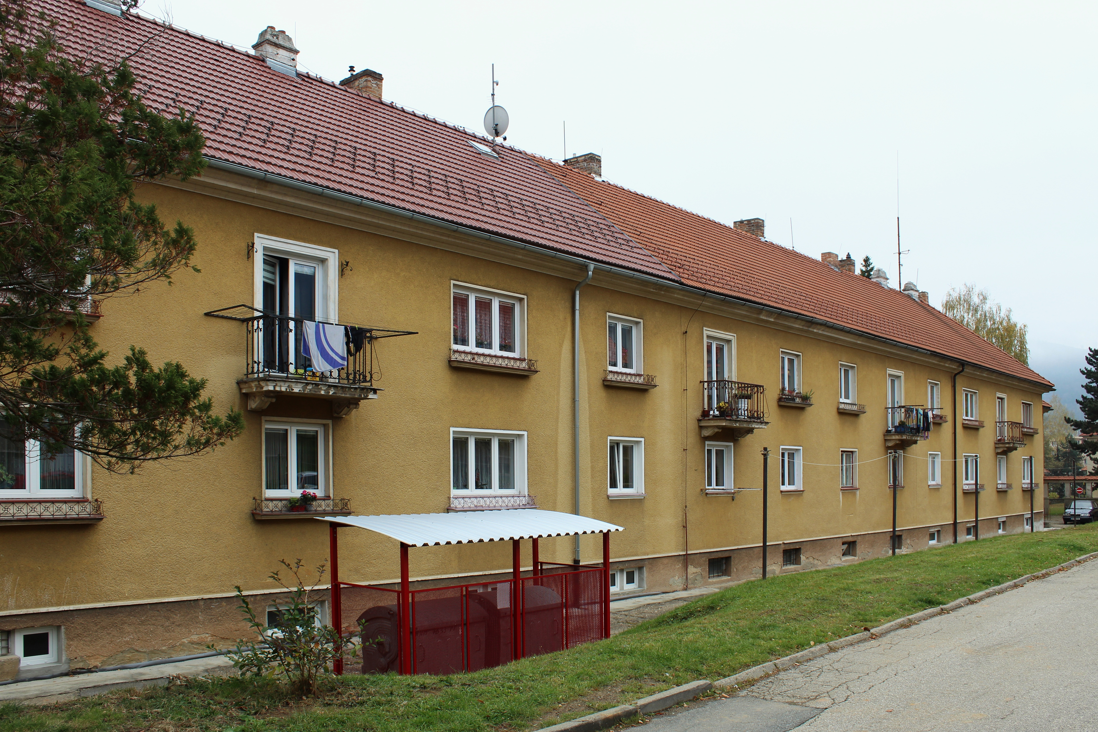 This file was obtained as part of the Editaton Prachatice 2 project.